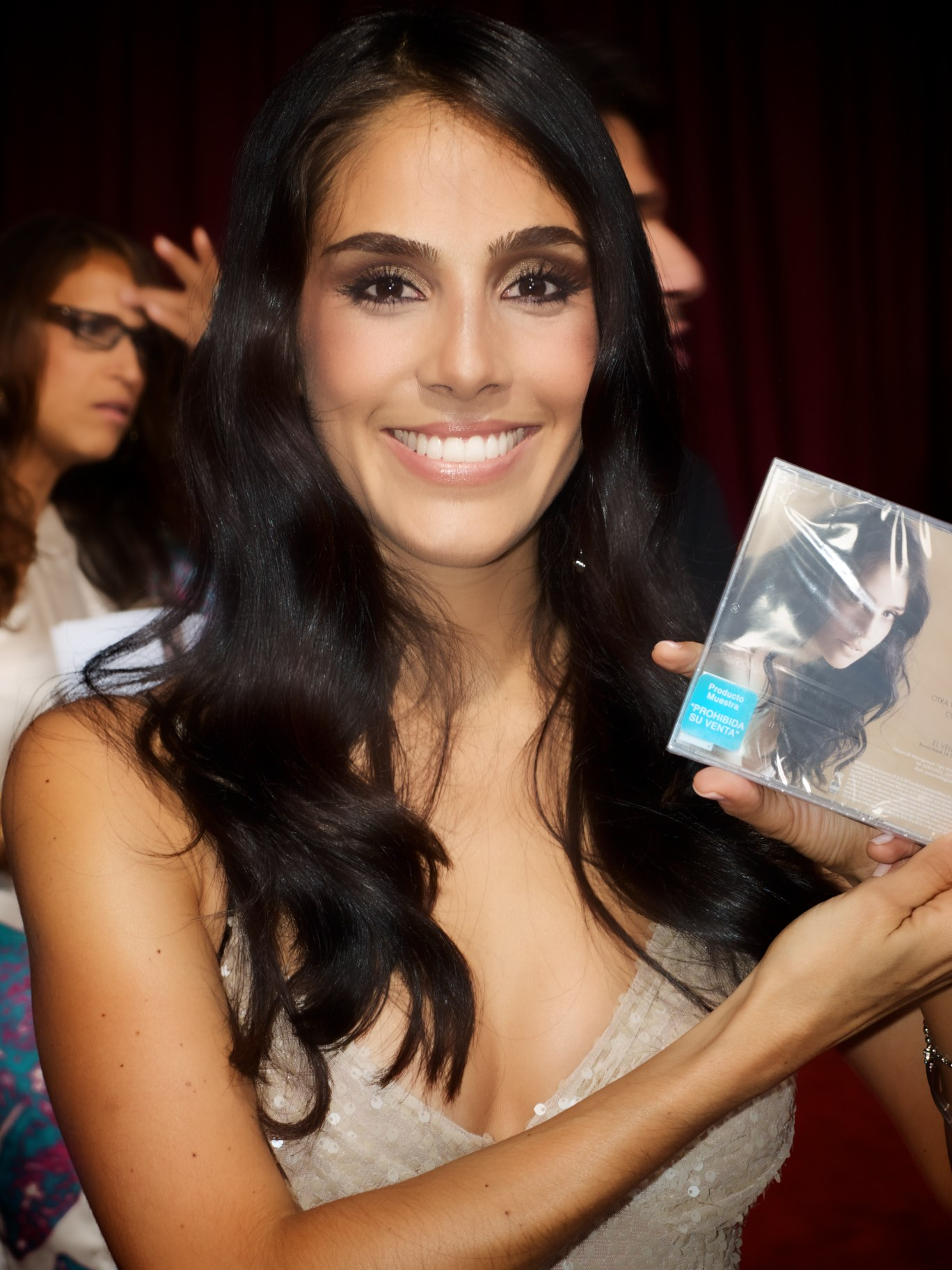 Actress Sandra Echeverría at the 2011 Alma Awards.